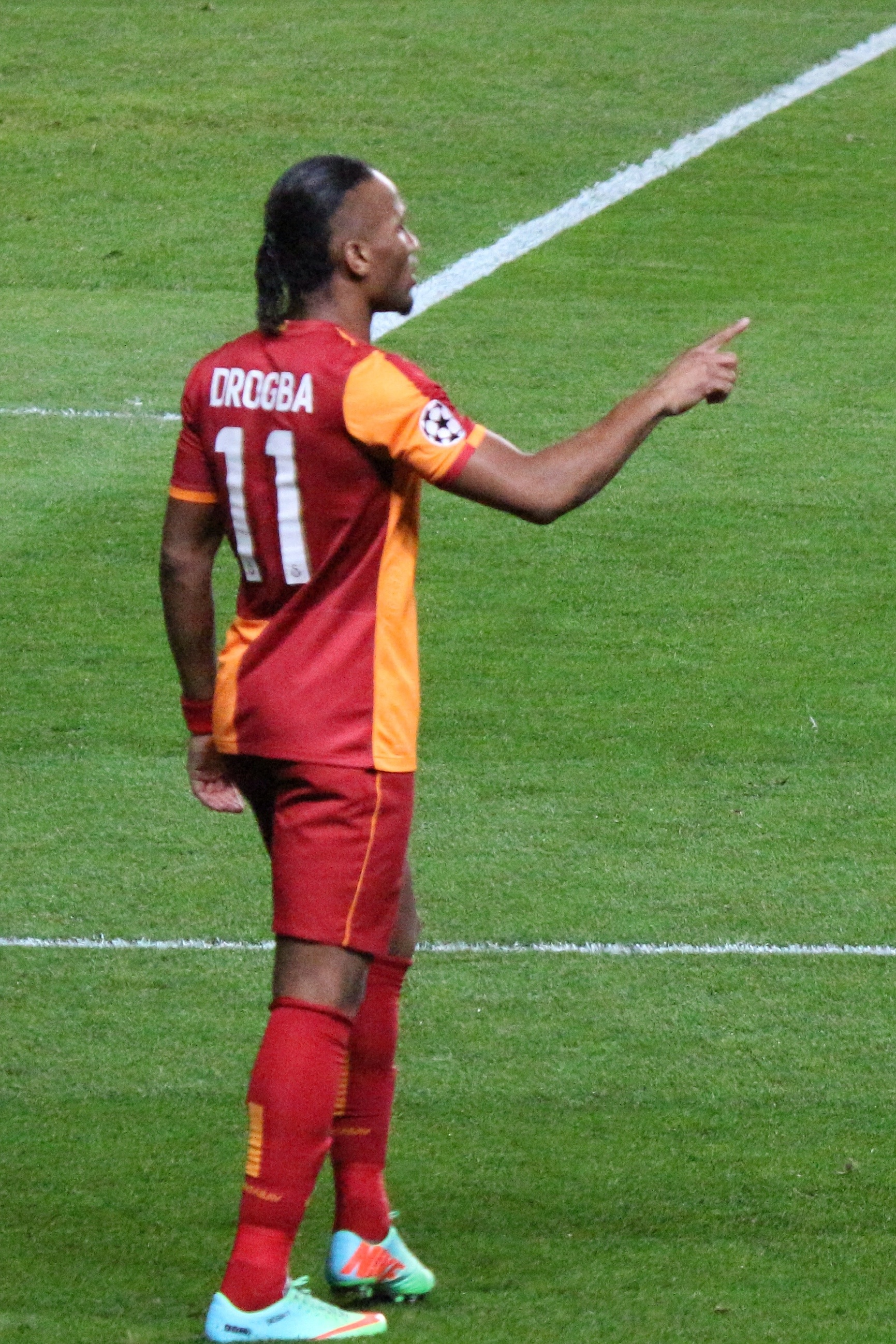 Champions League match between Chelsea and Galatasaray SK at Stamford Bridge on 18 March 2014.